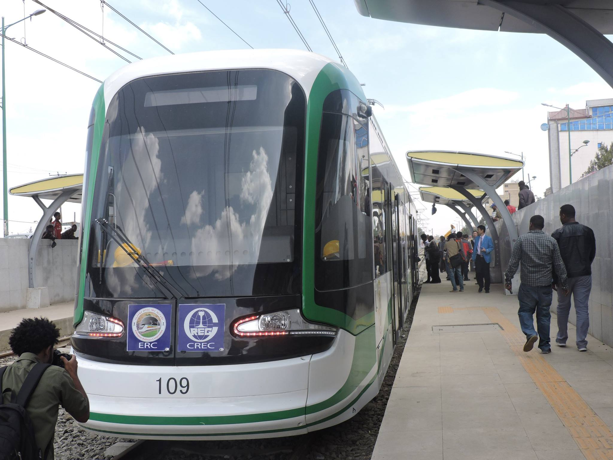 This is the Addis Ababa Light Rail Engine